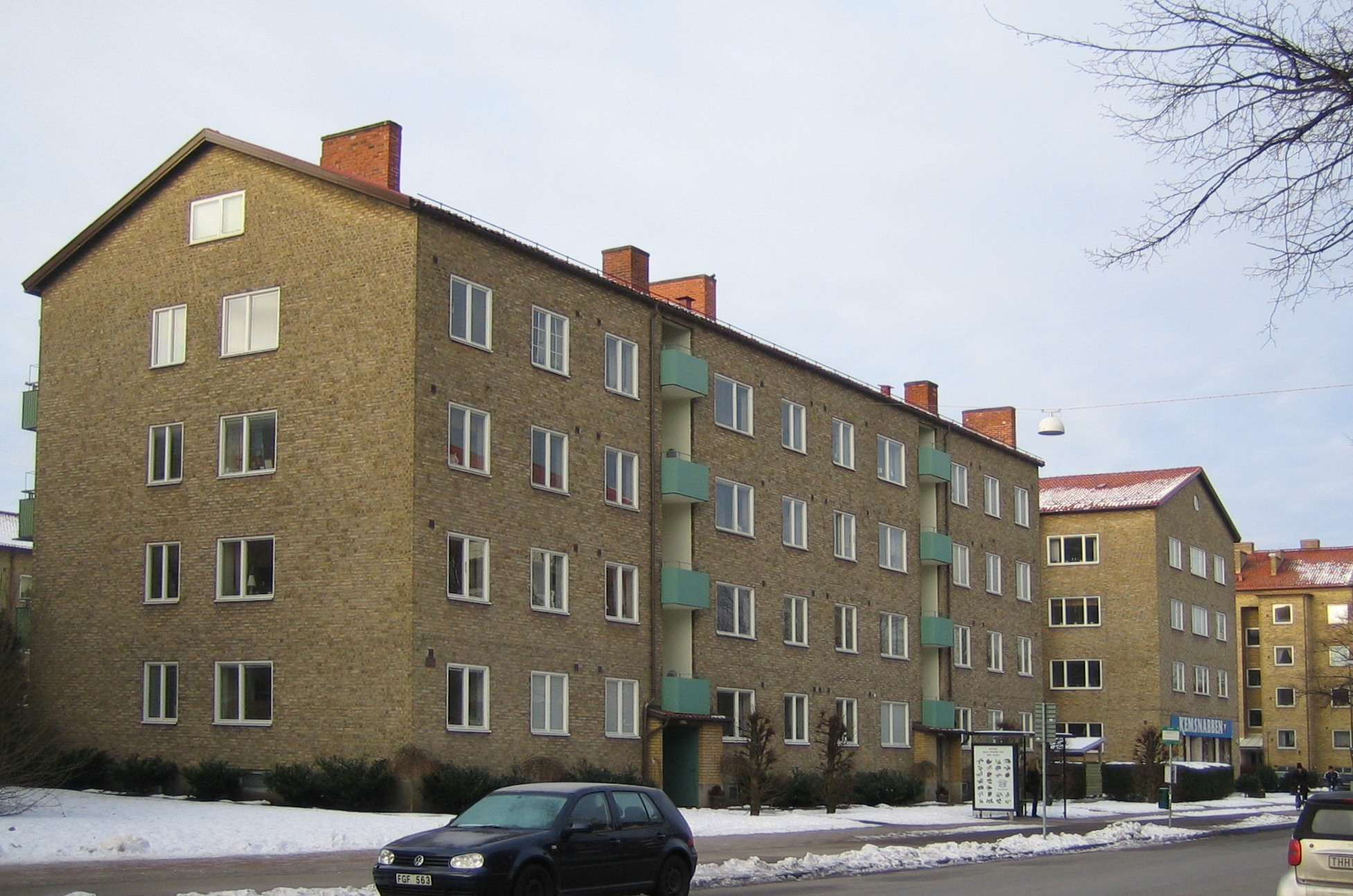 Typical house in Dammfri, Malmö.